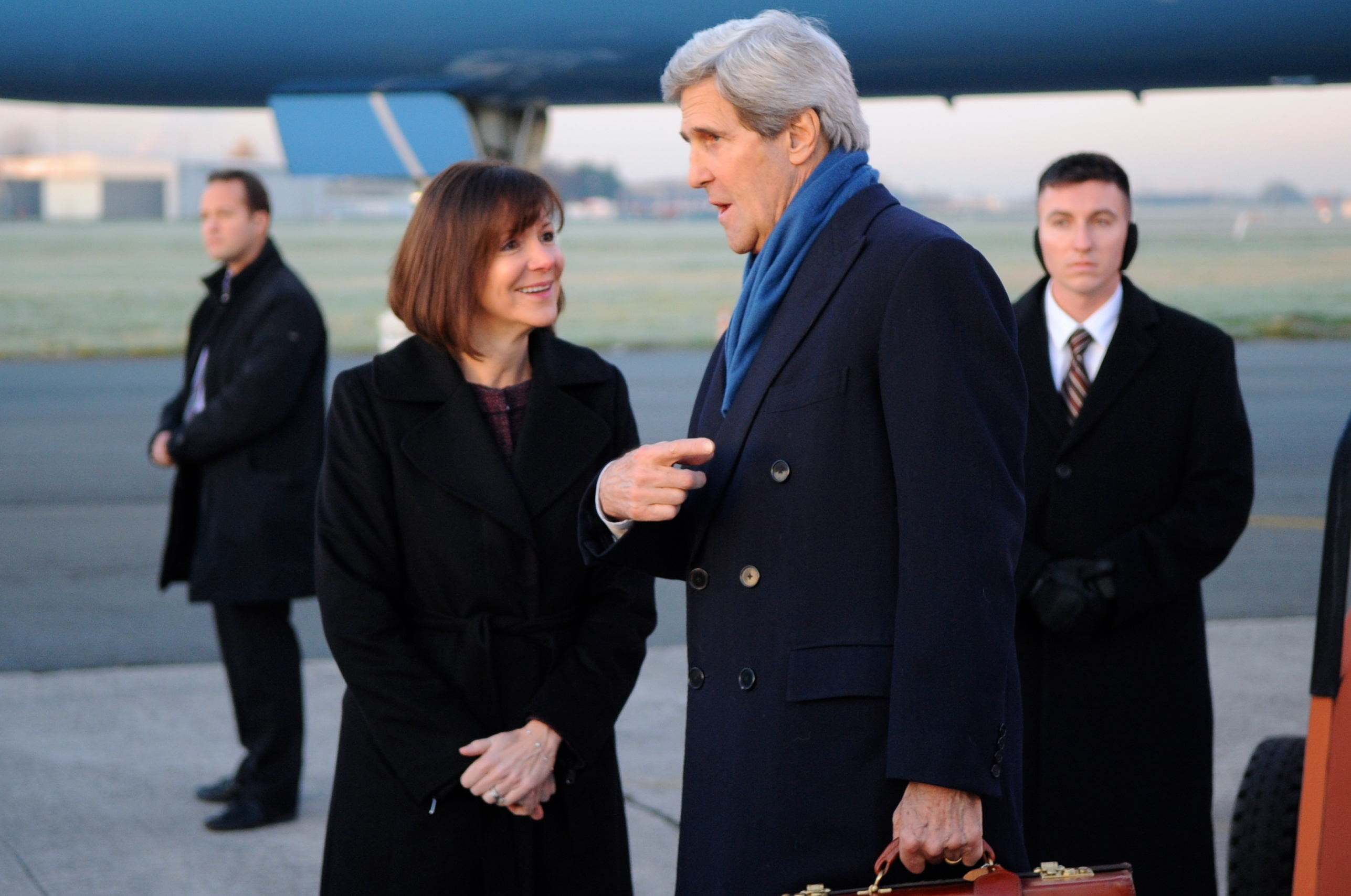 U.S. Secretary of State John Kerry chats with U.S. Ambassador to Belgium Denise Bauer after arriving in Brussels, Belgium, for NATO Ministerial meetings on December 3, 2013. [State Department photo/ Public Domain]